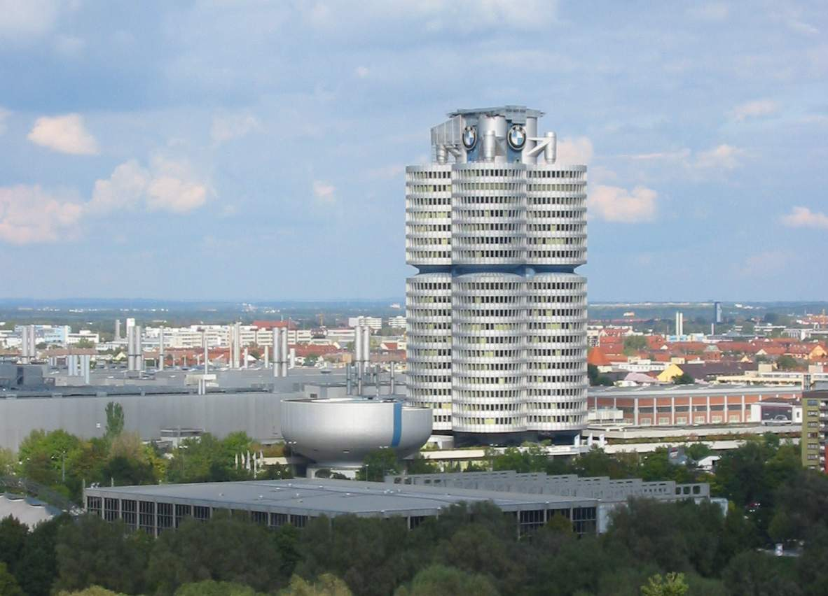 BMW building in Munich